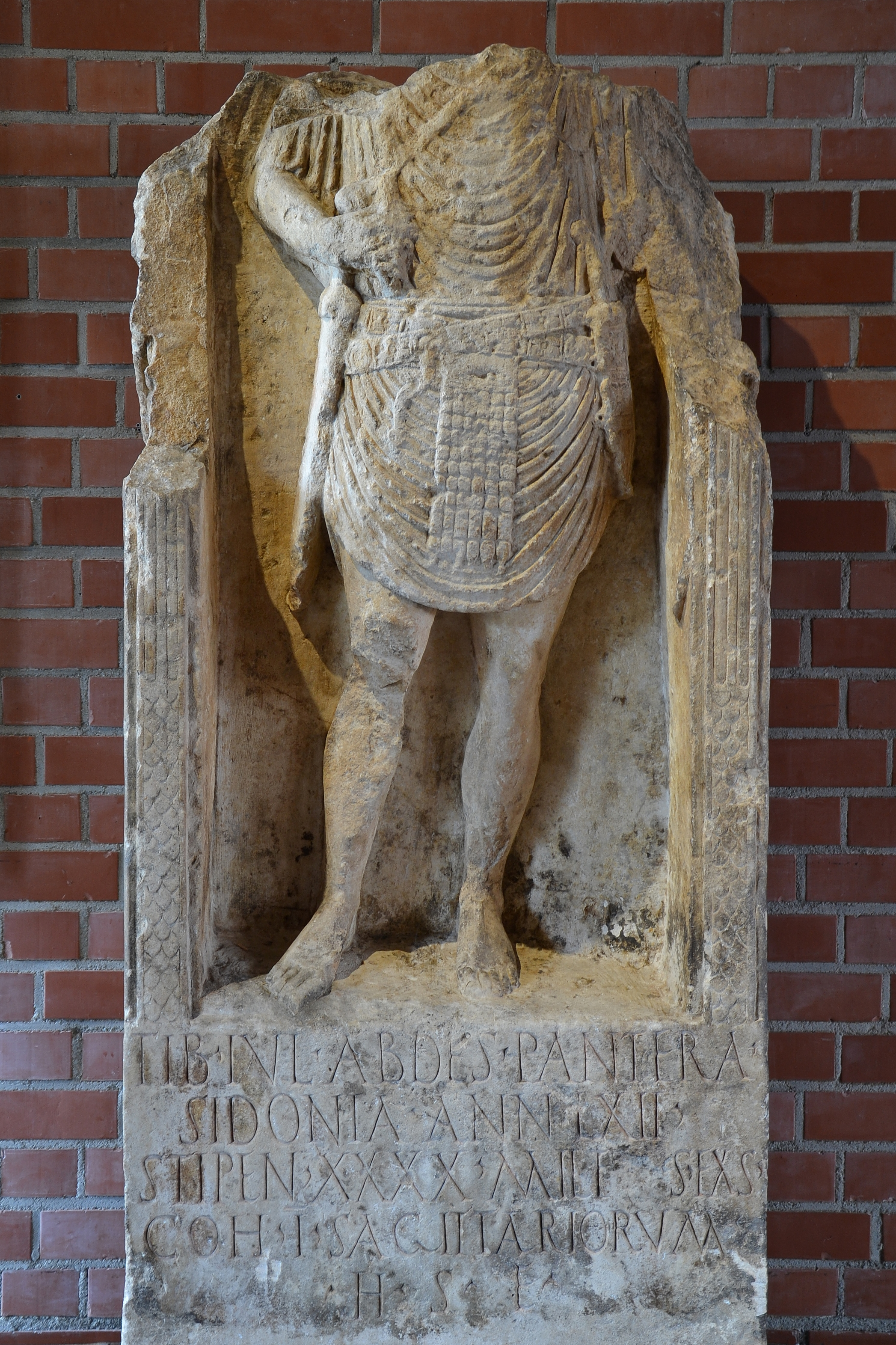 Tiberius Iulius Abdes Pantera tombstone in Römerhalle, Bad Kreuznach. CIL XIII 7514: Tib(erius) Iul(ius) Abdes Pantera / Sidonia ann(orum) LXII / stipen(diorum) XXXX miles ex{s} / coh(orte) I sagittariorum / h(ic) s(itus) e(st)